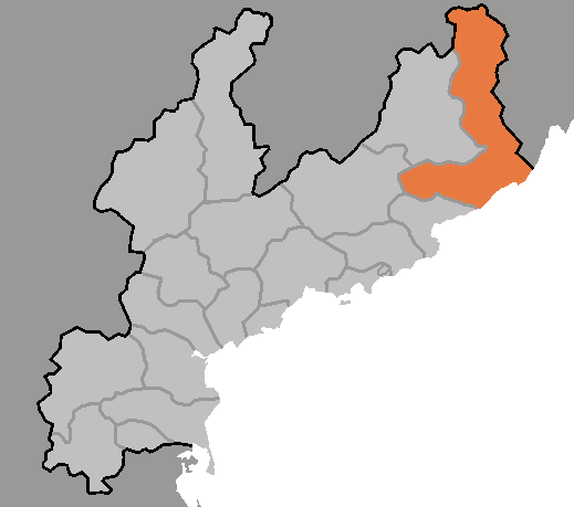 Map of Tanchon, Hamgyong-namdo, DPRK, 2006